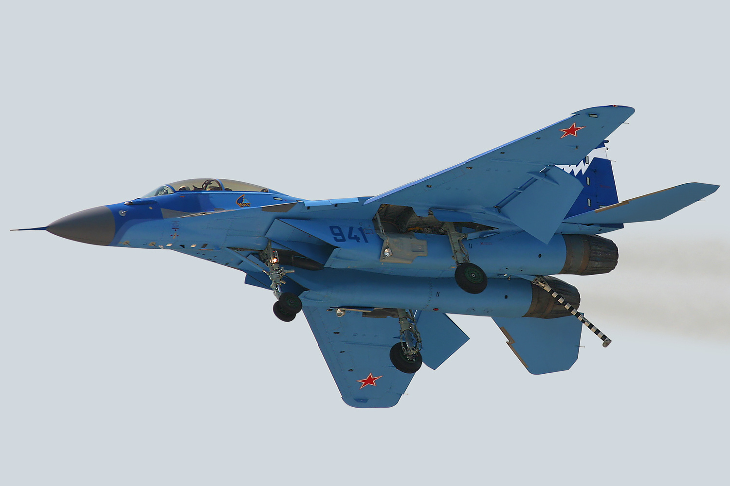 MiG-29K (9-41) carrier-based multirole fighter at MAKS-2007 airshow. Demonstration of stability at minimal speed is performing by MiG's chief-pilot, Hero of Russia, Pavel Vlasov.